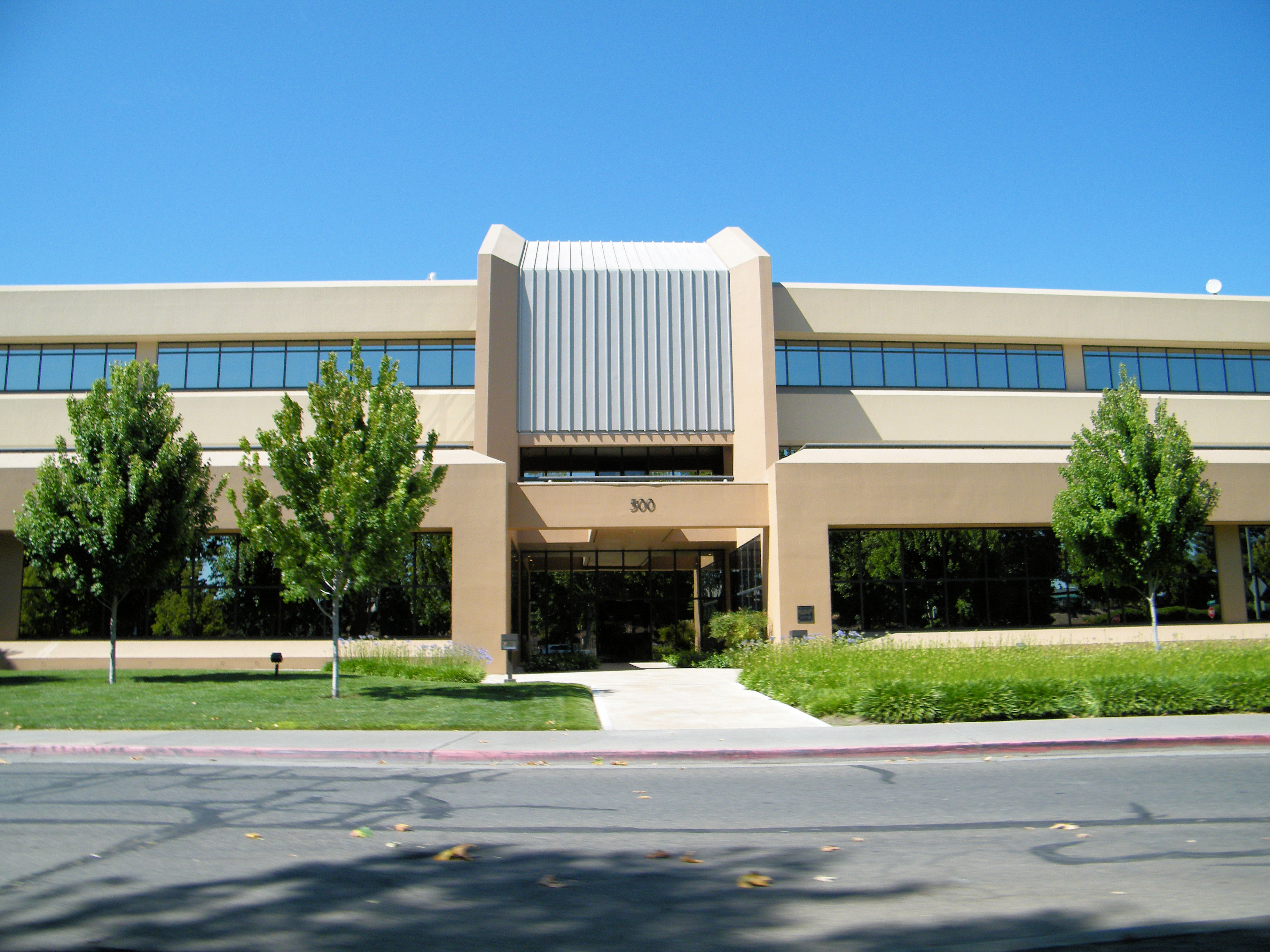 Raley's Supermarkets' headquarters in West Sacramento. The building is located at 500 W. Capitol Ave. in West Sacramento—sometimes billed as Broderick, California.